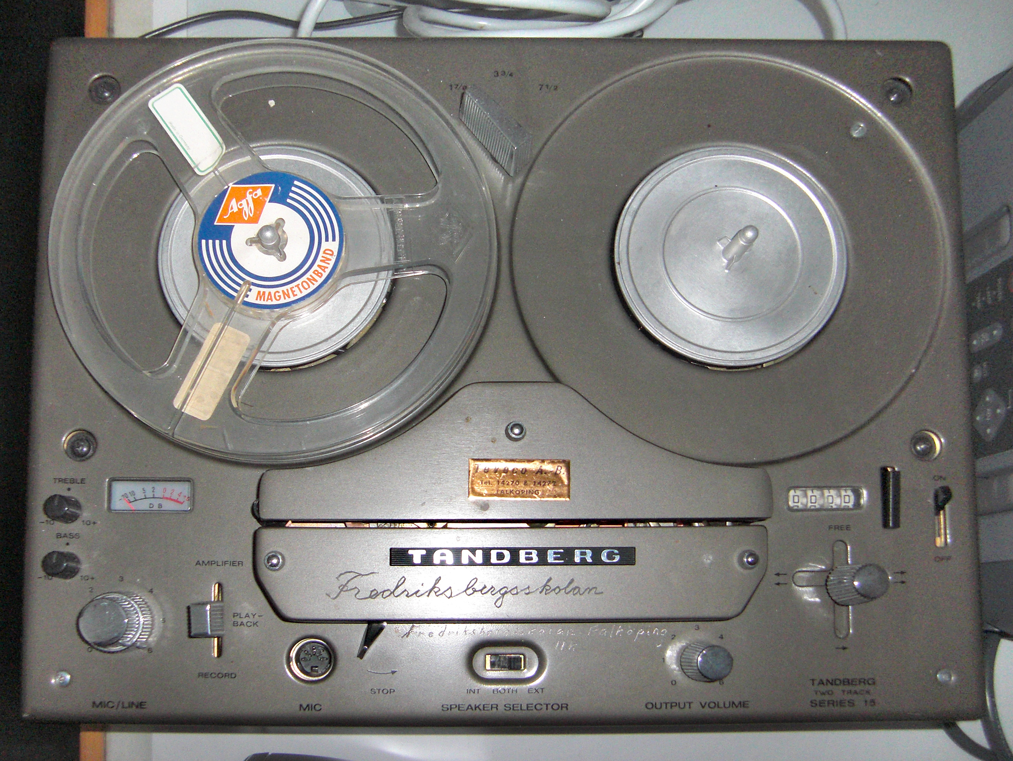 A Tandberg Two track Series 15 reel-to-reel tape recorder from a school in Falköping, Västra Götaland County, Sweden.